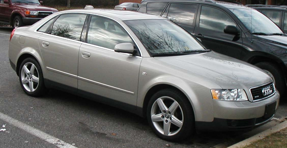 2001-2005 Audi A4 photographed in USA.